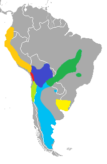 Distribution of the subspecies of Leopardus colocolo, Light Green - Leopardus c. colocolo Dark Green - Leopardus c. braccatus Dark Blue - Leopardus c. budini Orange - Leopardus c. garleppi Yellow - Leopardus c. munoai Light Blue - Leopardus c. pajeros Red - Leopardus c. wolfsohni